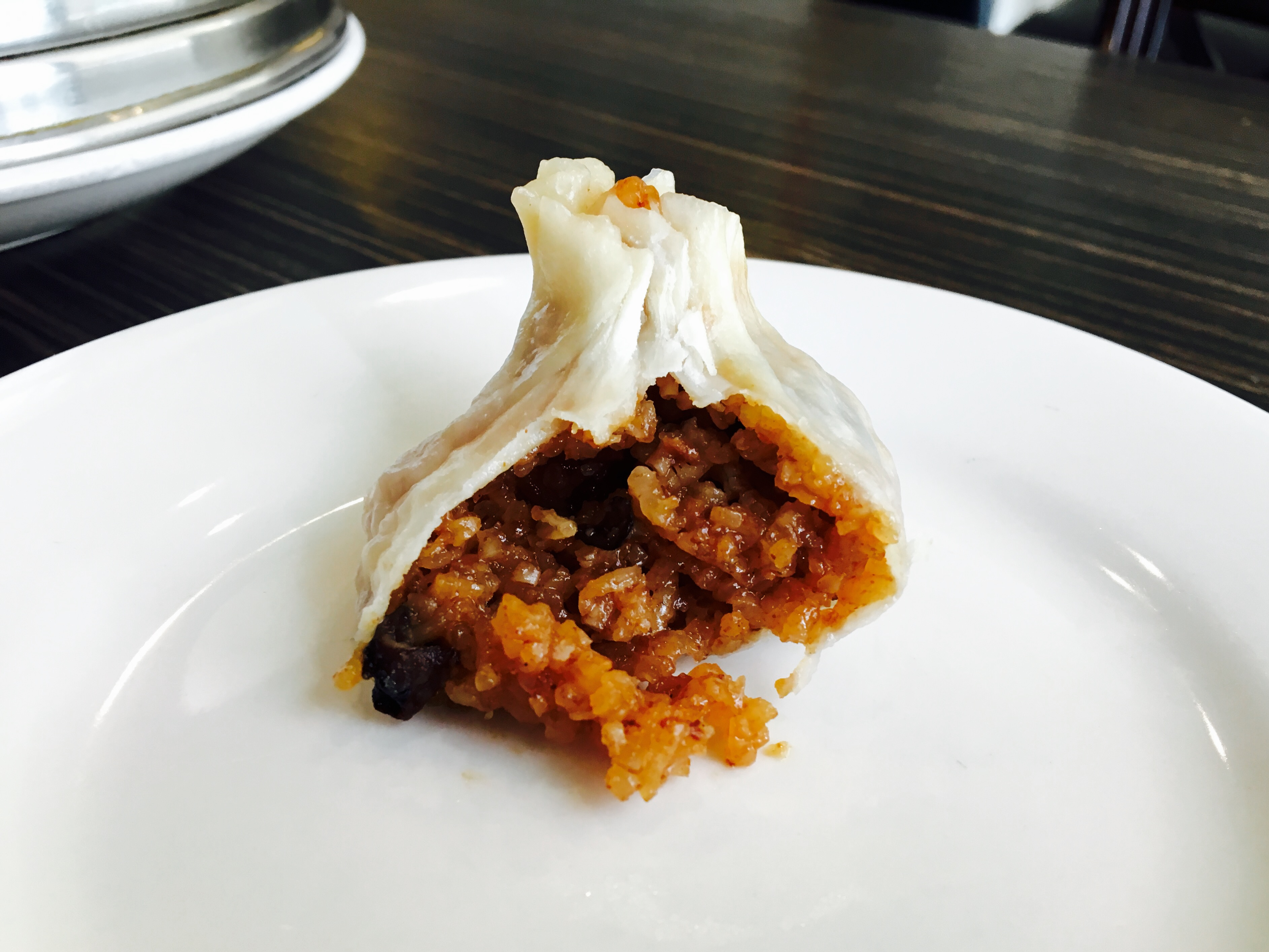 Shao Mei inside